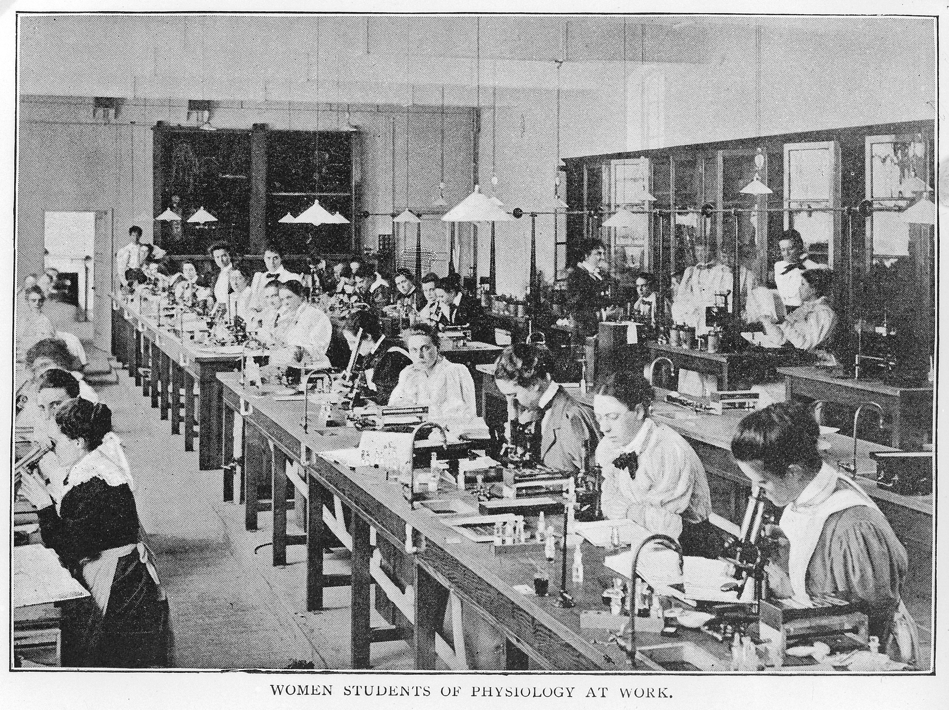 The London School of Medicine, Physiology Laboratory. Women students at work, 1899. Wellcome Images Keywords: the london school of medicine for woman